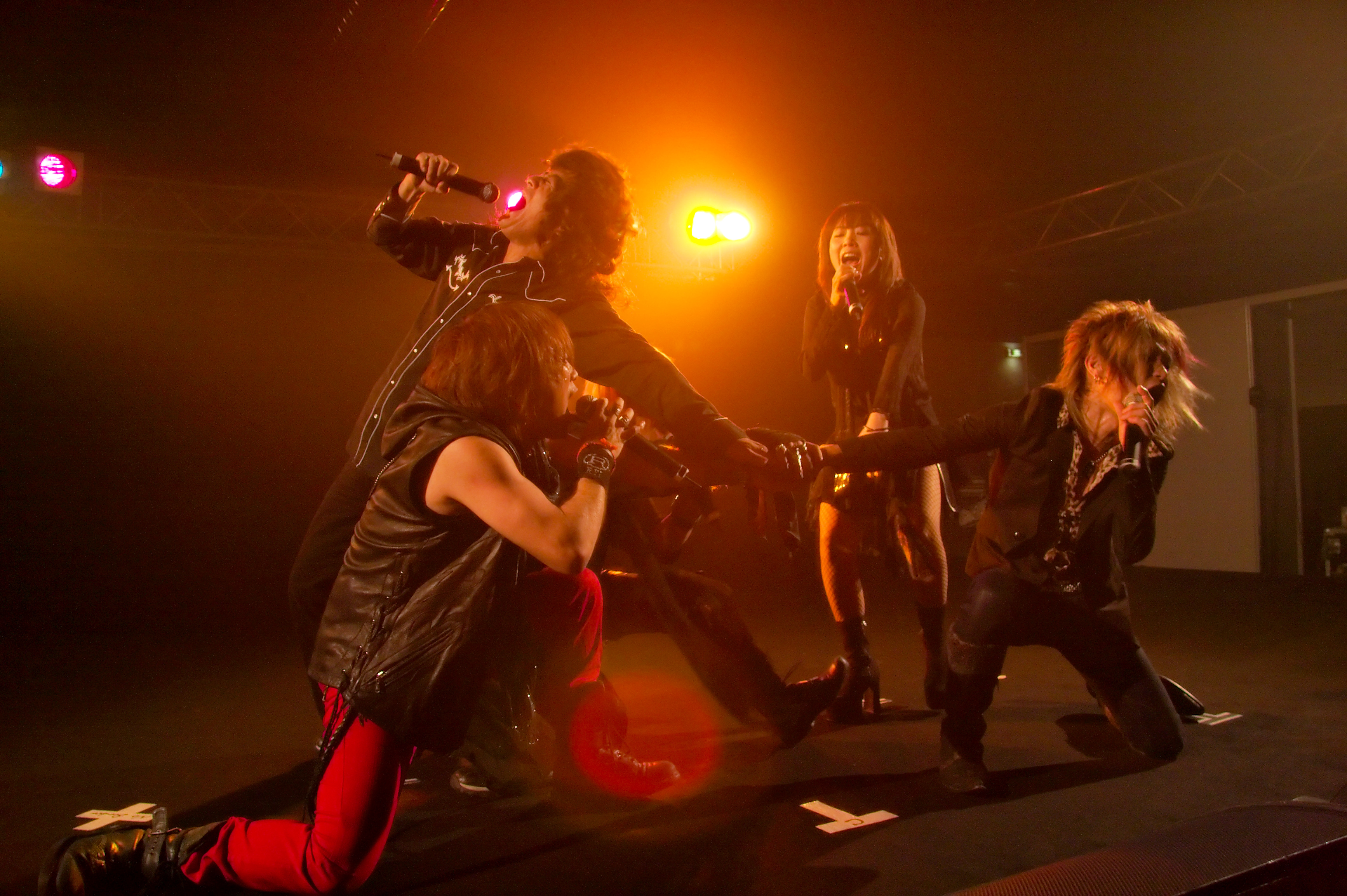 JAM Project live at Chibi Japan Expo 2008 (Paris, France).